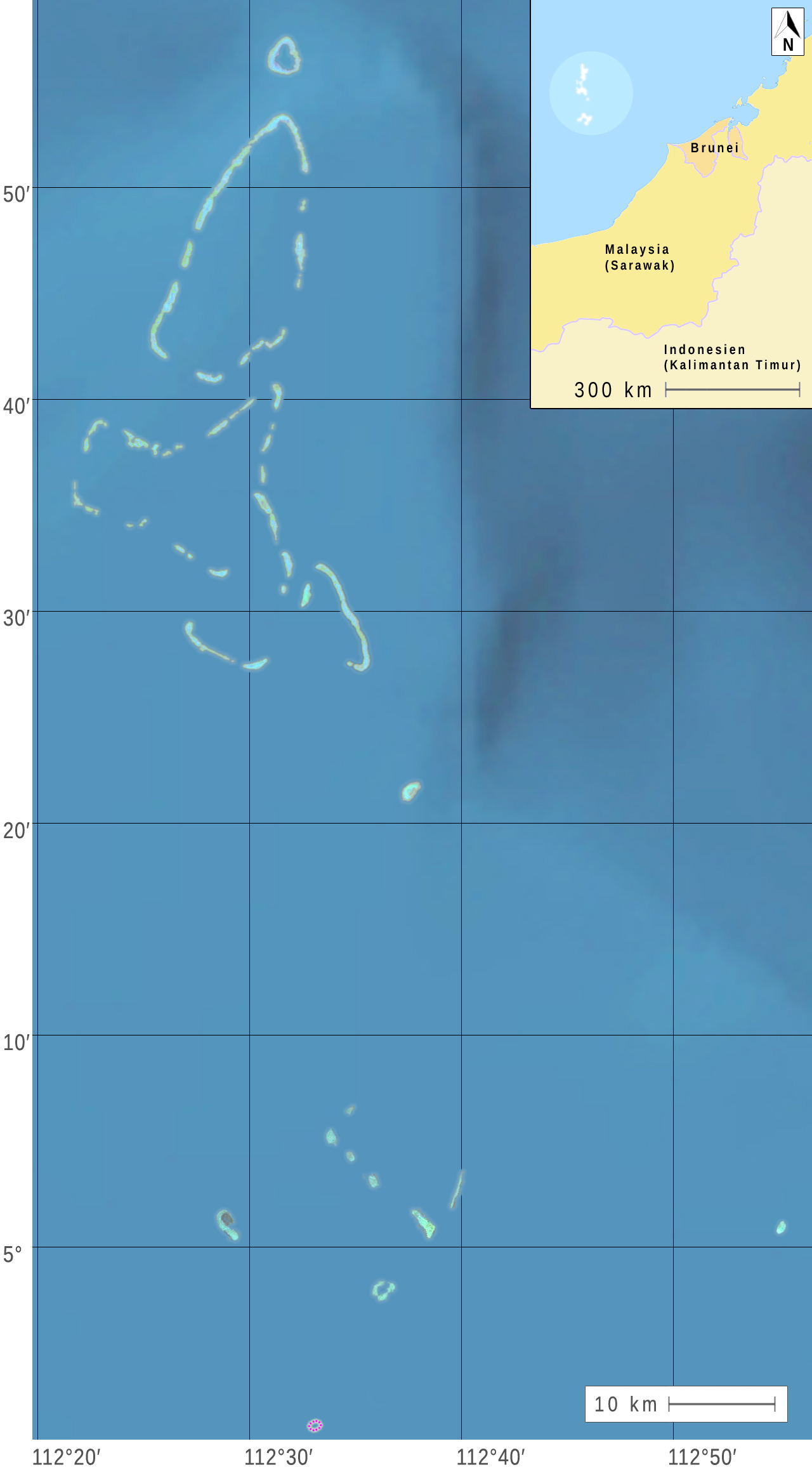 Northern and Southern Luconia Shoals (or reefs) in the South China Sea southwest of the Spratly Islands to the continental shelf in front of the Malaysian state of Sarawak. (According to satellite images of Landsat 7 and other sources.)